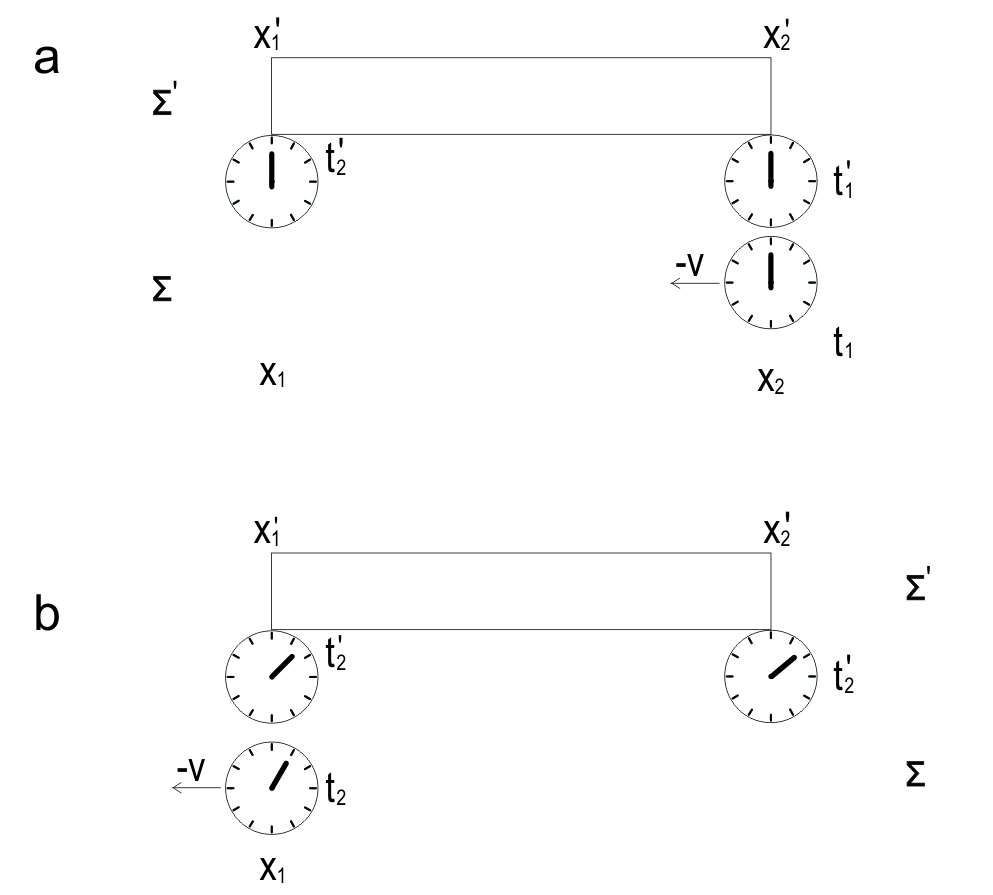 Time dilation measurement diagram 1